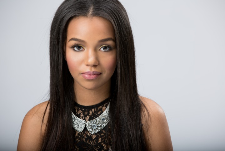 Daphne Blunt age 16